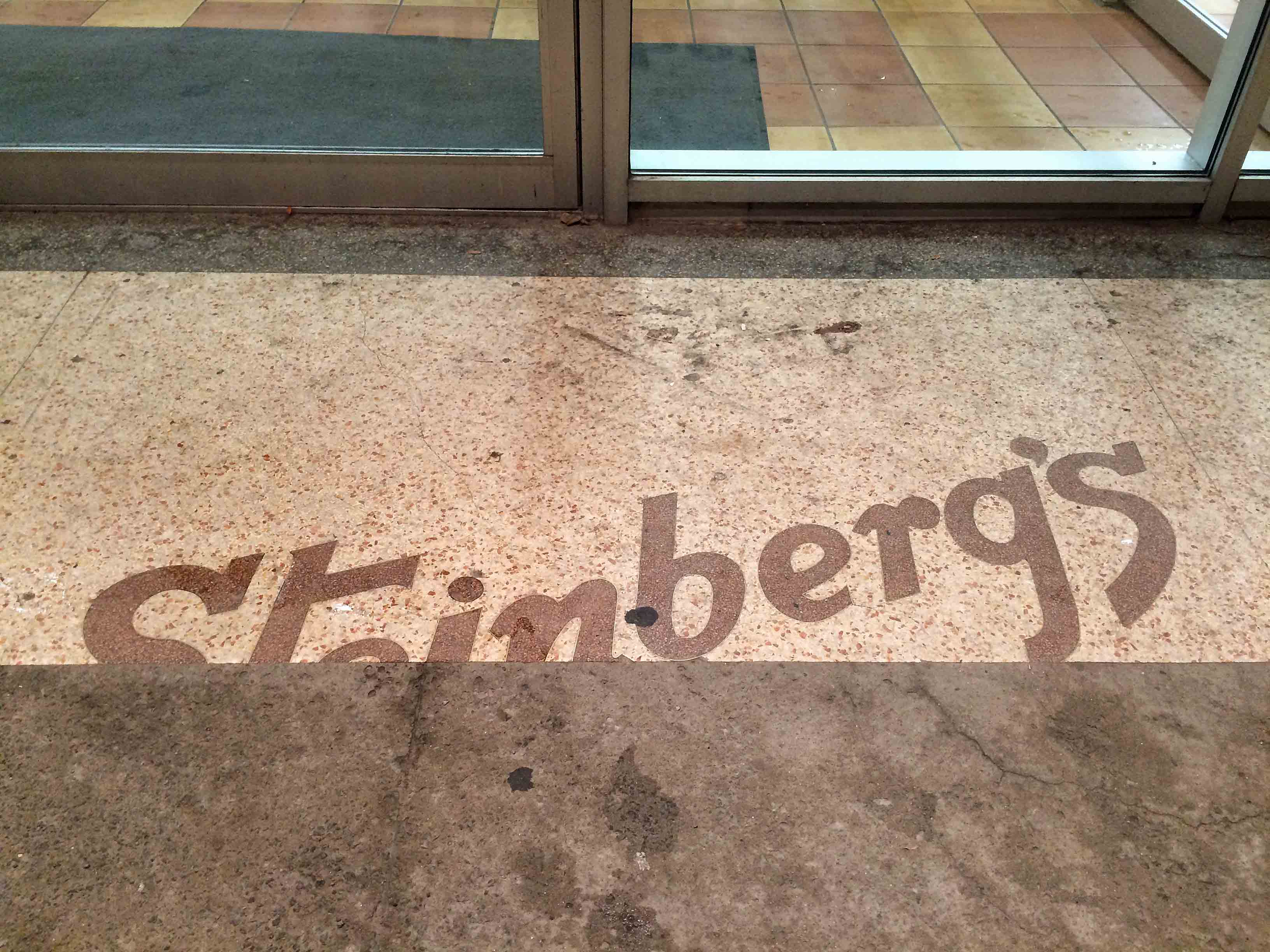 A Steinberg's logo on the entrance floor at one of the defunct supermarket chain's former stores in Montreal, now a Metro store.